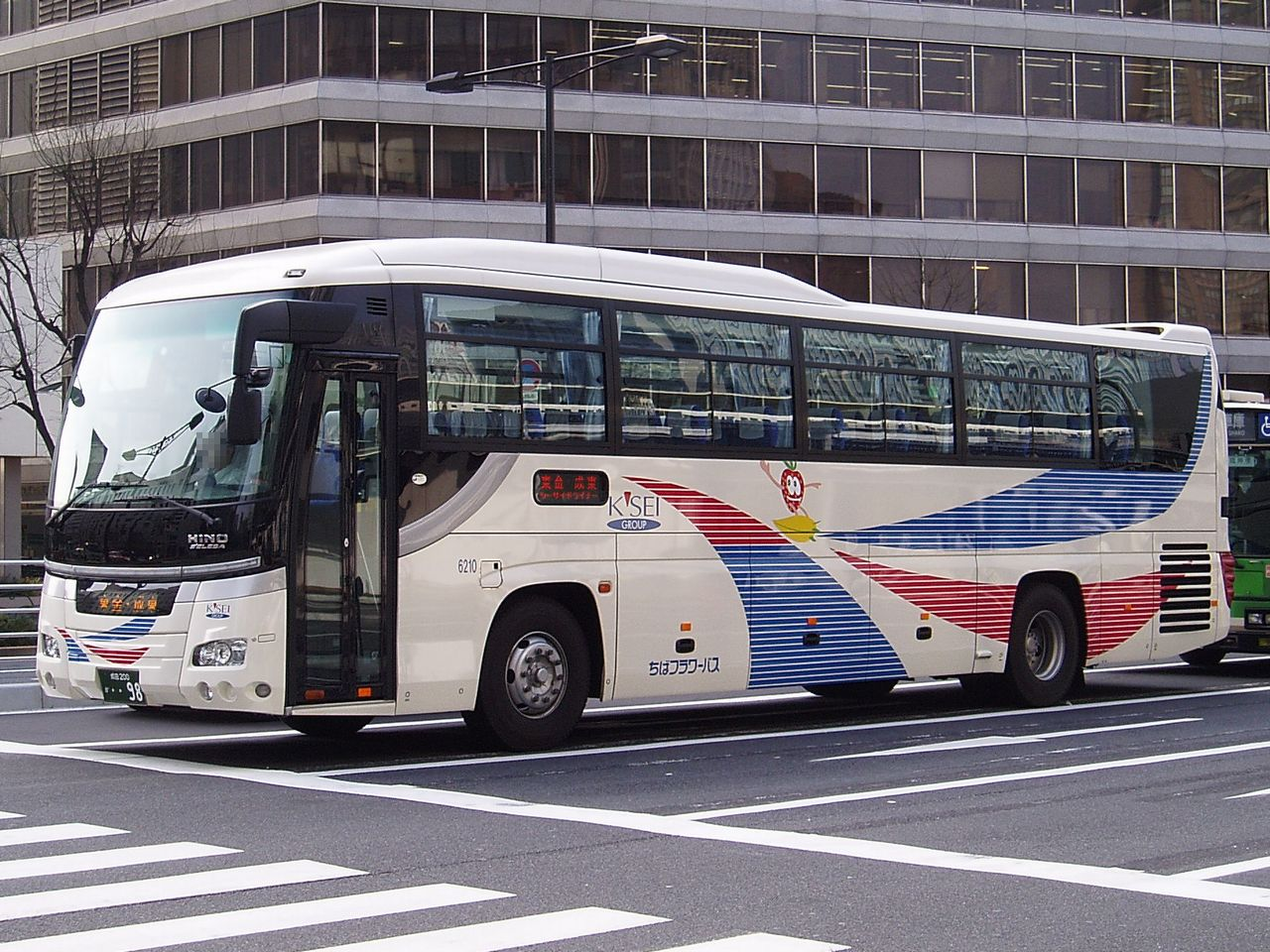 Chiba Flower Bus 6210